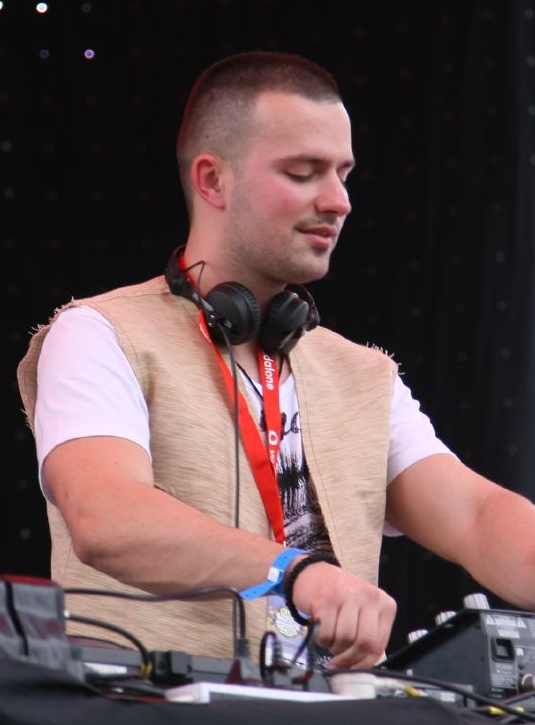 Photograph of Dragan Roganović, cropped from original, also known as Dirty South, taken in Melbourne, Australia in 2007.